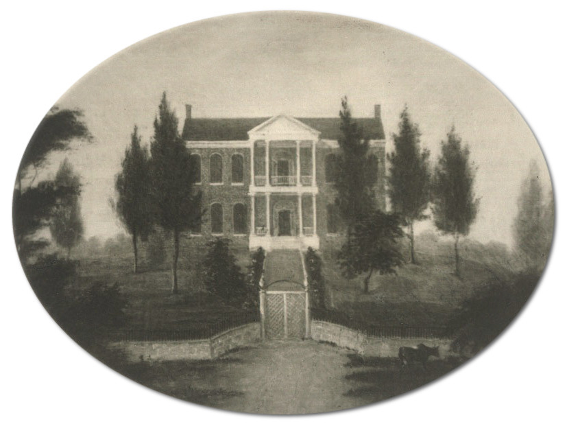 Drawing of Grundy Hill by unknown artist.